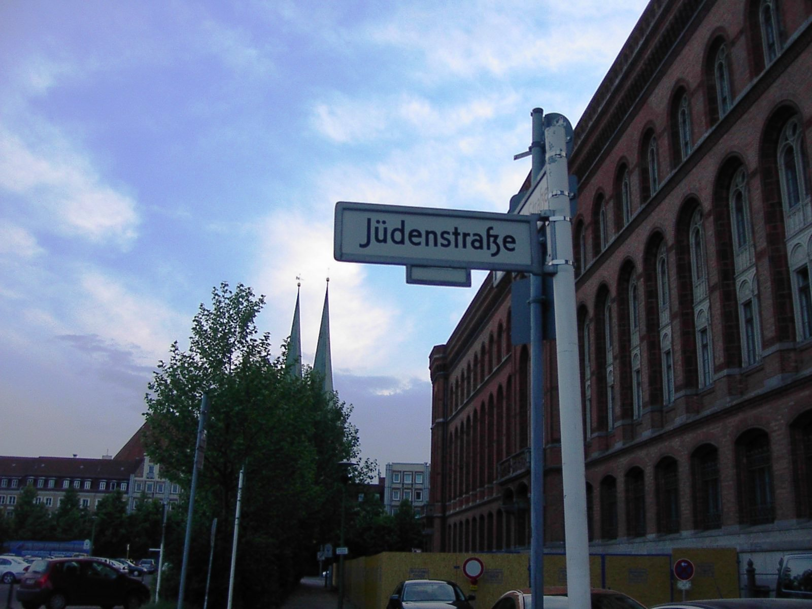 Jüdenstraße, May 2006